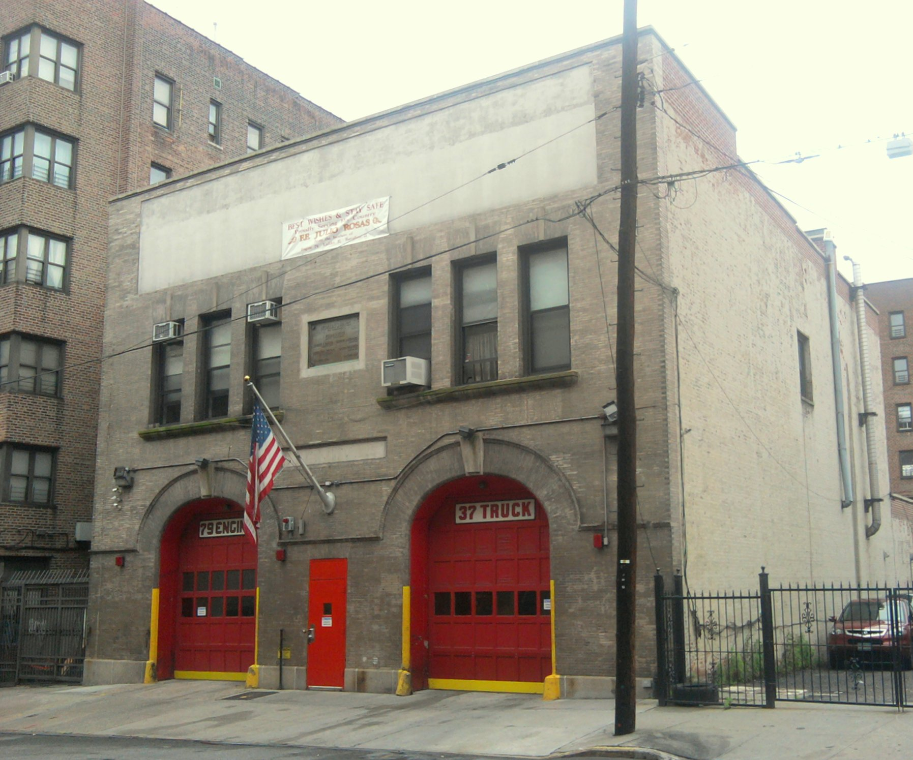 Looking east across Briggs Avenue at firehouse for 79 Engine and 37 Truck on a rainy afternoon.